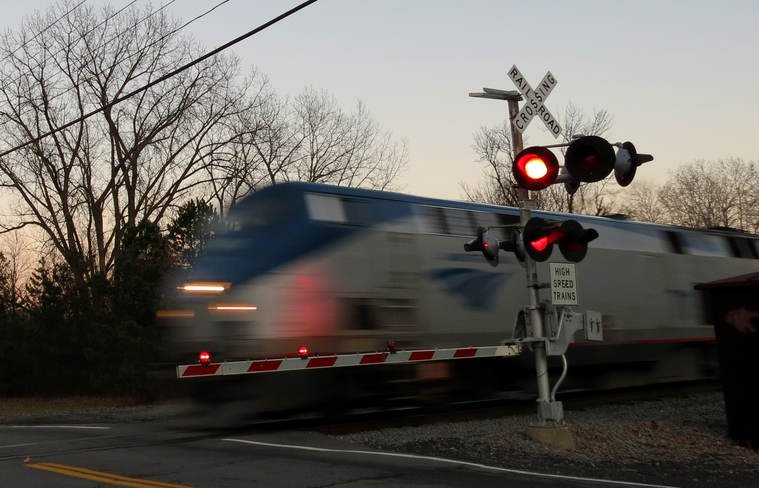 Westbound 'Empire Service' Train 235 at the grade crossing on Lincoln Ave in Colonie, NY; just west of where the I-87 Northway crosses the Hudson Line. Top Speed here is 110-mph.